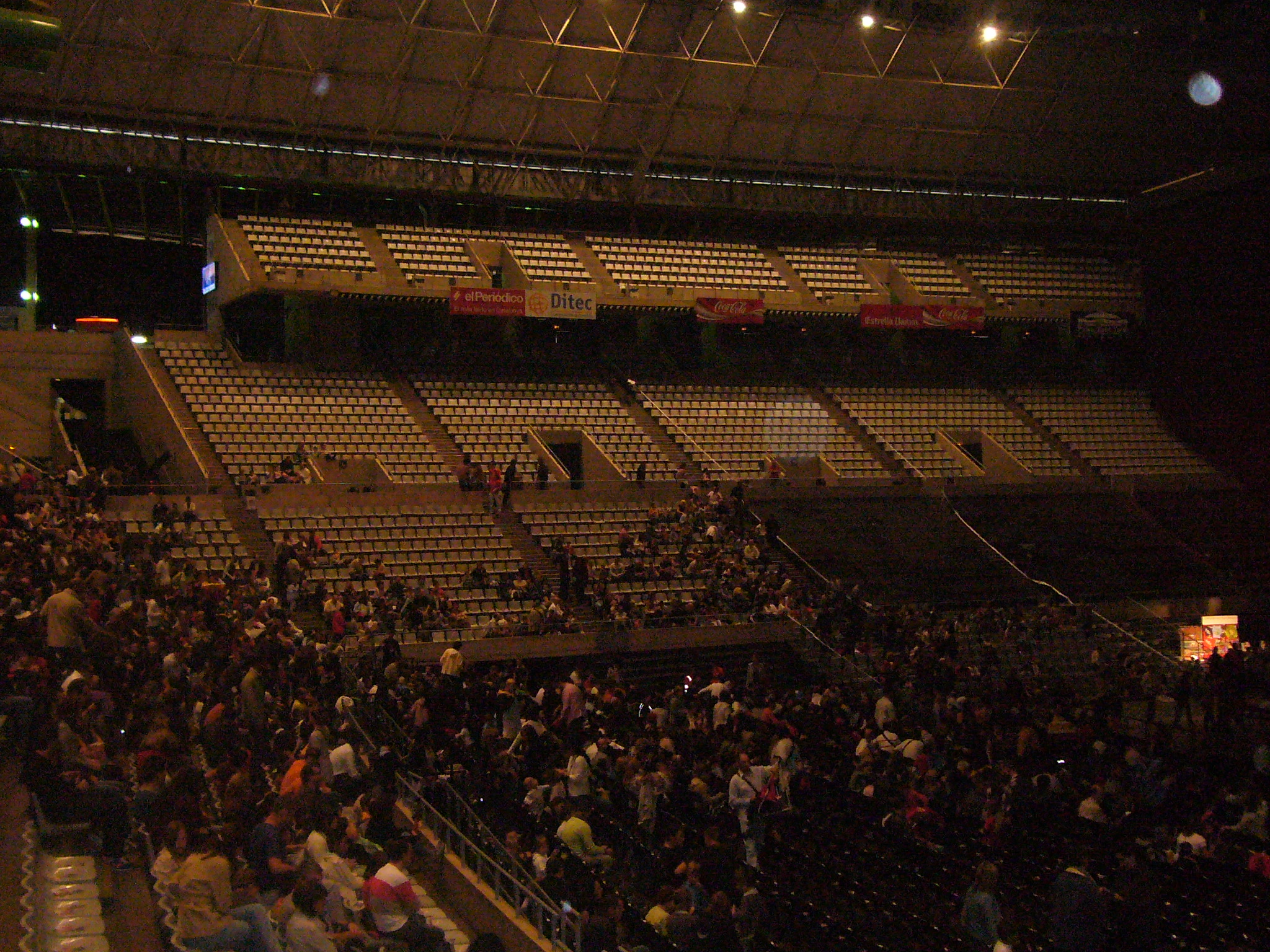 Palau Sant Jordi, Barcelona. Interior.